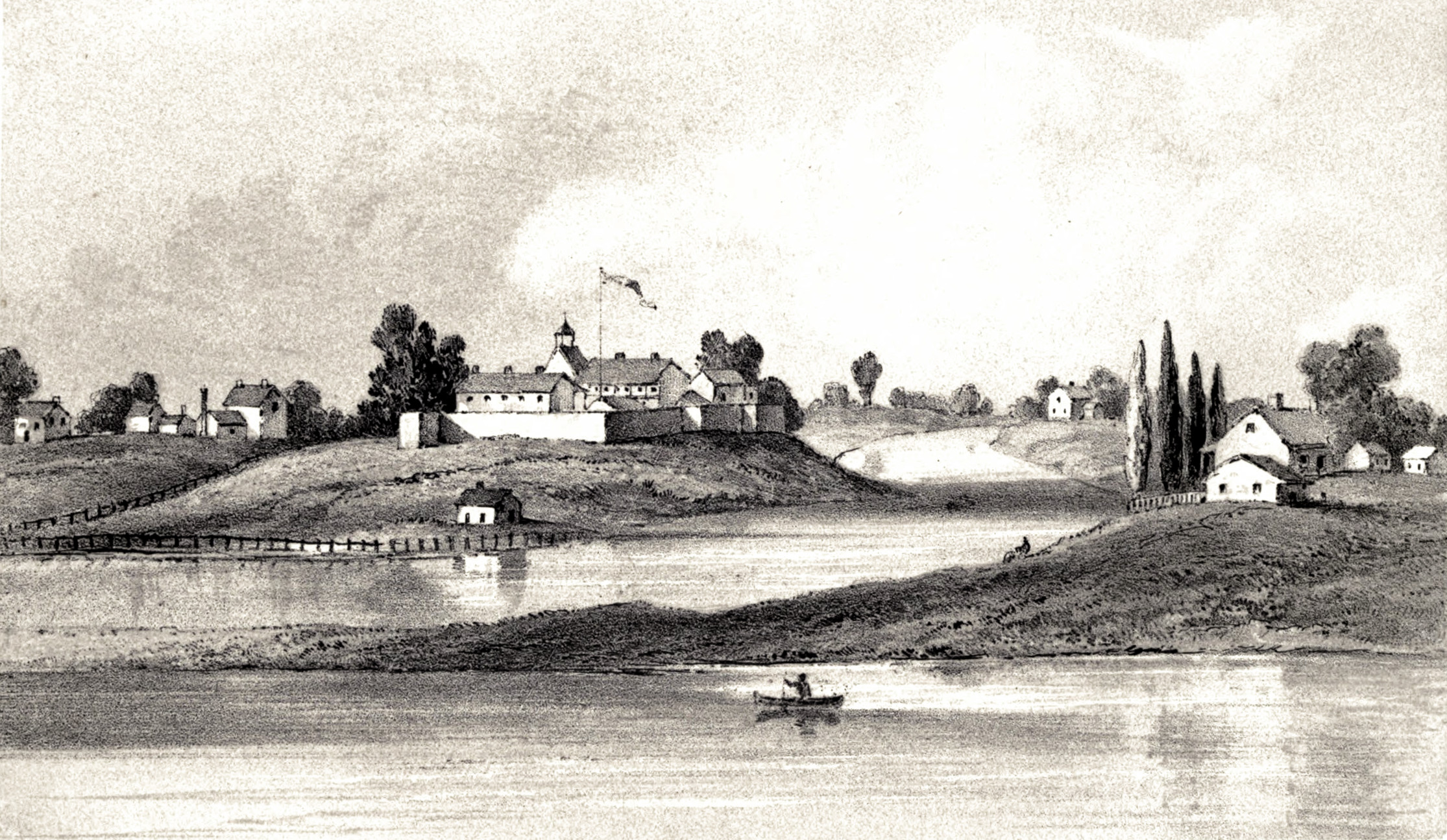 Engraving showing Fort Dearborn, Chicago, Illinois, as it appeared in 1831